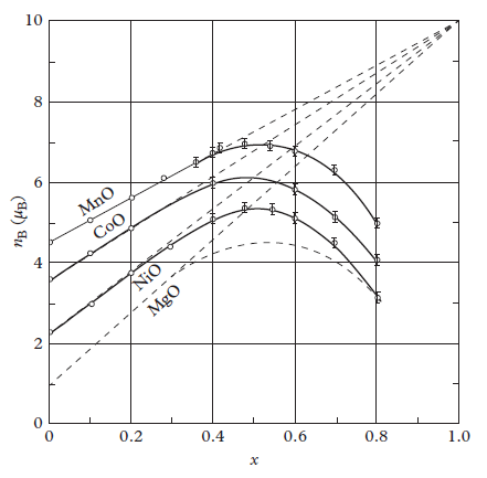 Segaspinellide küllastusmagneetumus sõltuvuses zn suhtest